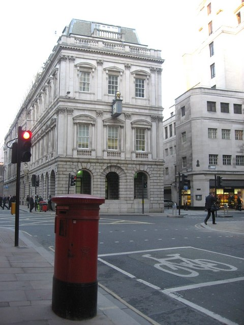 Queen Street, EC4. The northern end, at its junction with Cheapside/Poultry. Shows the location of 1096450.